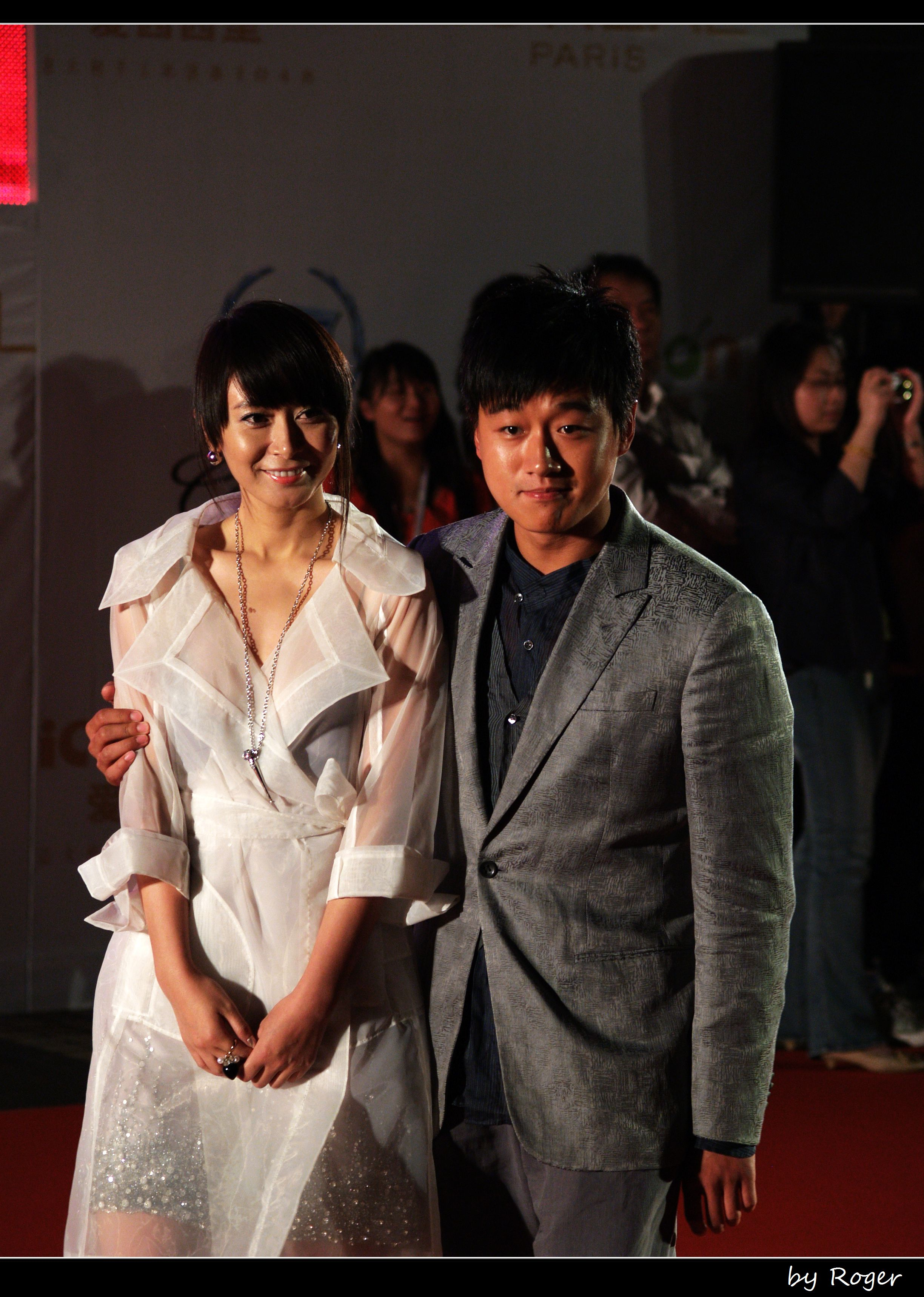 Tóng Dàwéi at 2007 Shanghai International Film Festival